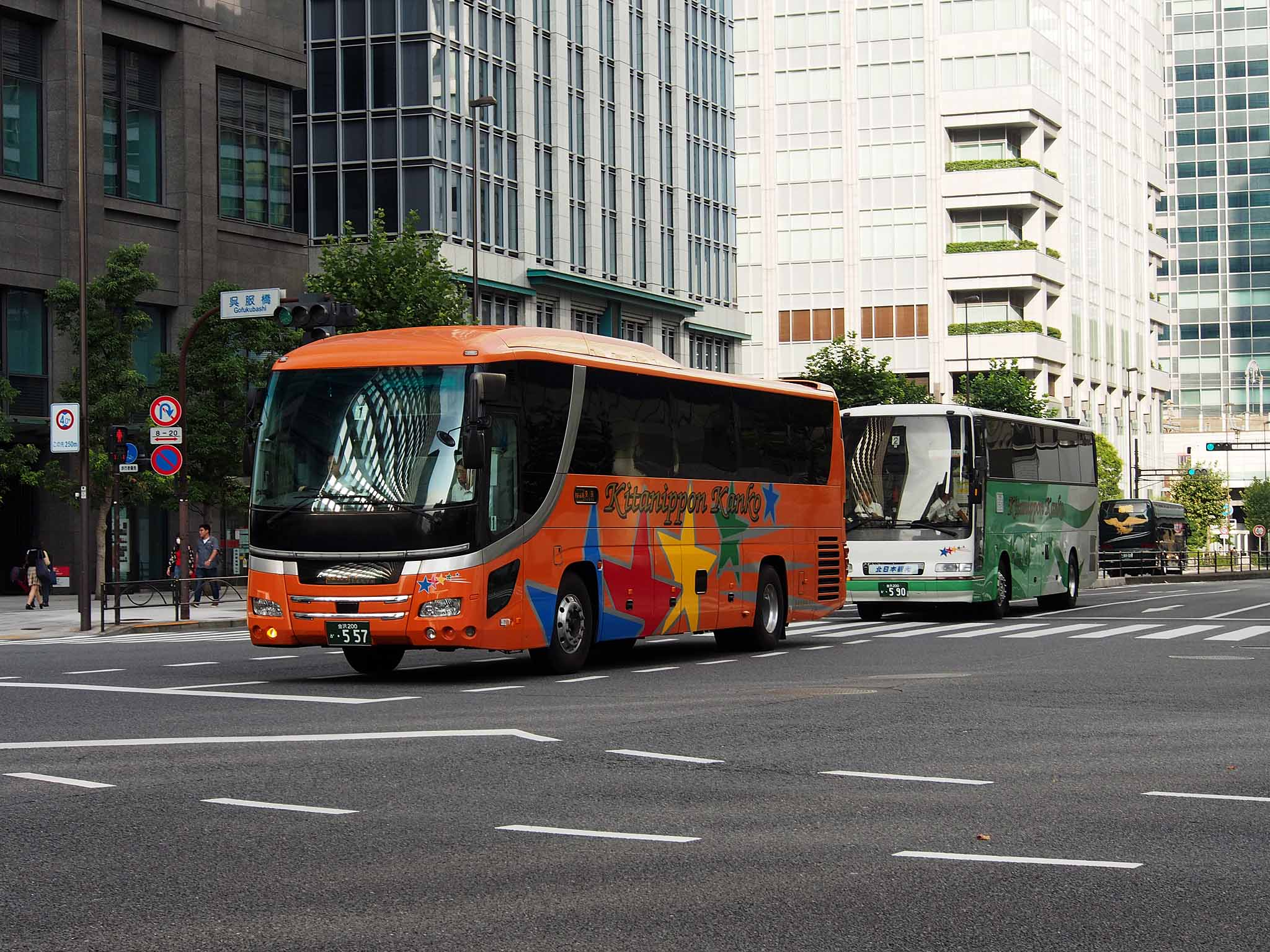 Kitanippon Kanko Jidosha "Kimasshi" fleets. Forward (Car No.1): Hino Selega HD RU1ESBA License plate: ISK500 KA0557 Aft (Car No.2): Hino Selega GD KC-RU4FSCB License plate: ISK500 KA0590 Place: Gofukubashi Crossing, Chuo Ward, Tokyo Japan